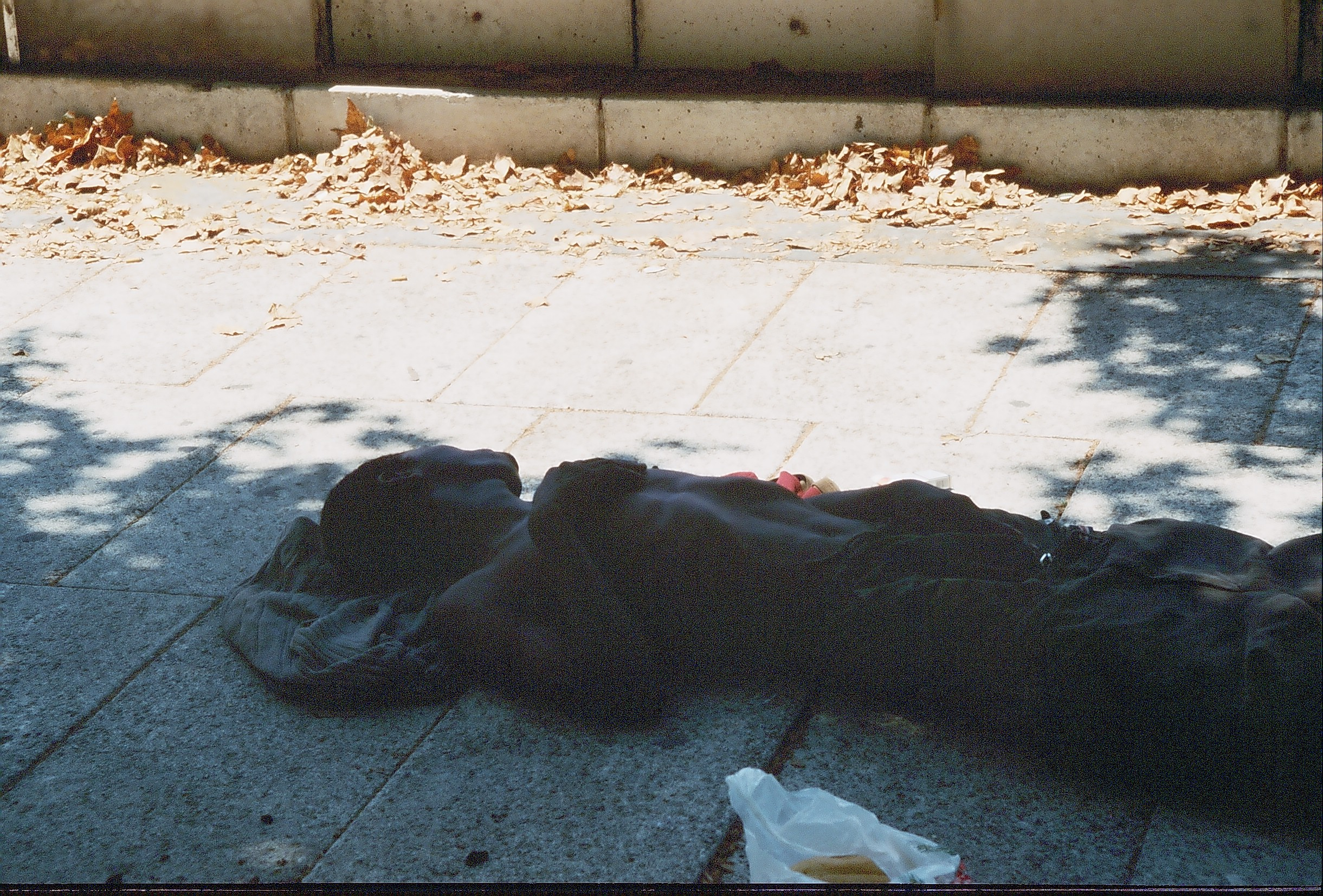 African immigrant